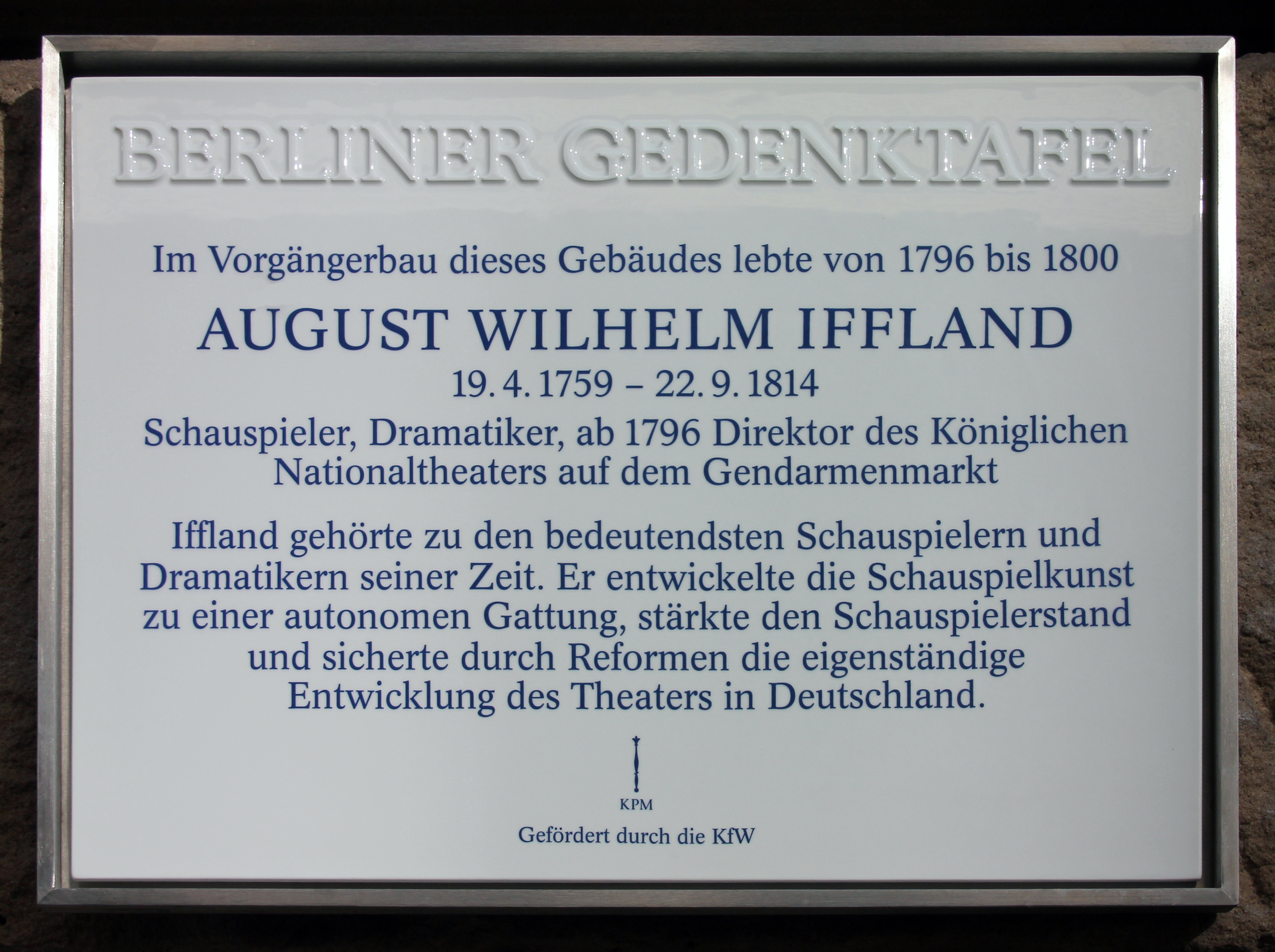 Berlin memorial plaque, August Wilhelm Iffland, Charlottenstraße 33, Berlin-Mitte, Germany